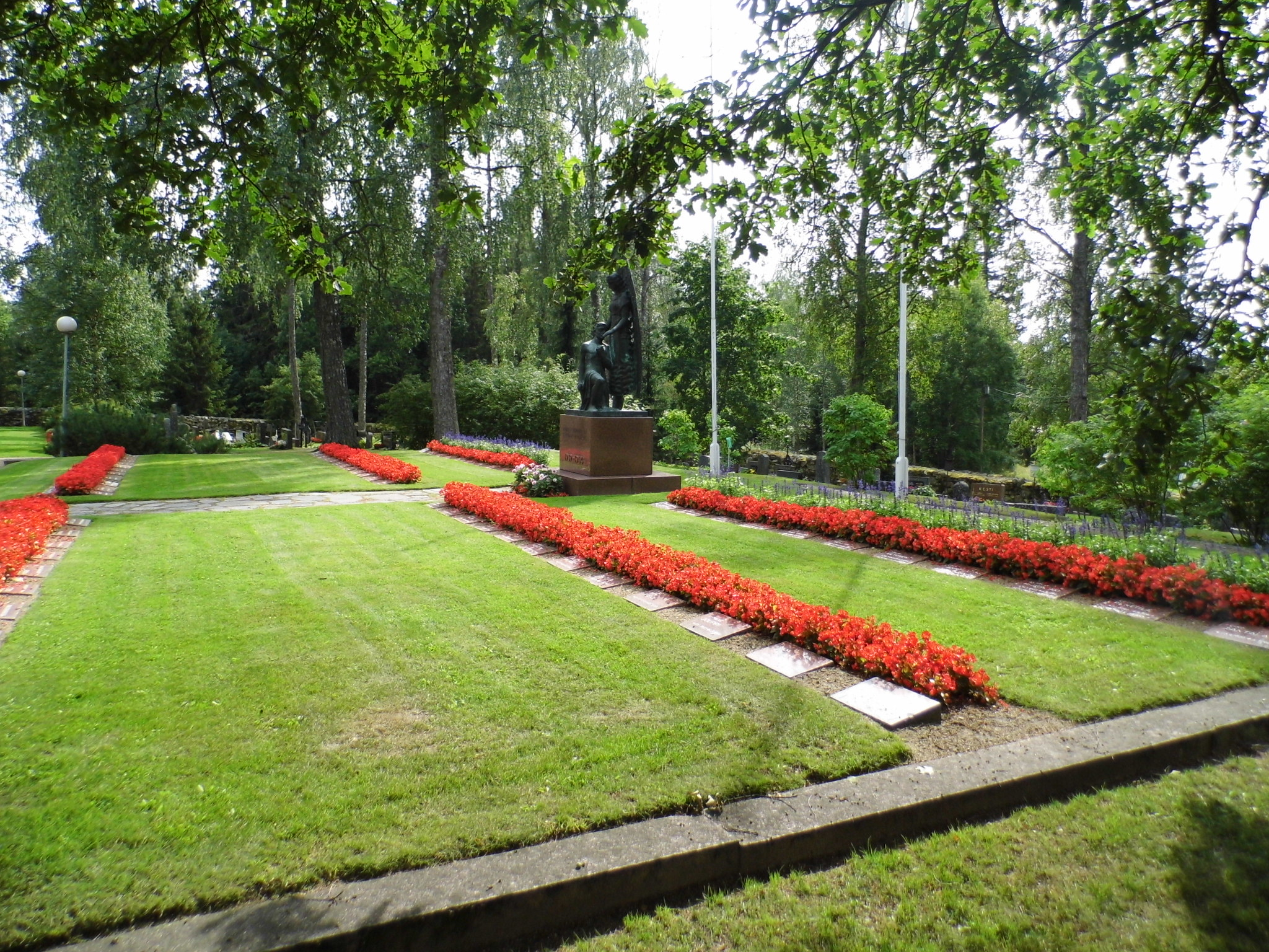 Military cemetary at church in Jurva, Finland